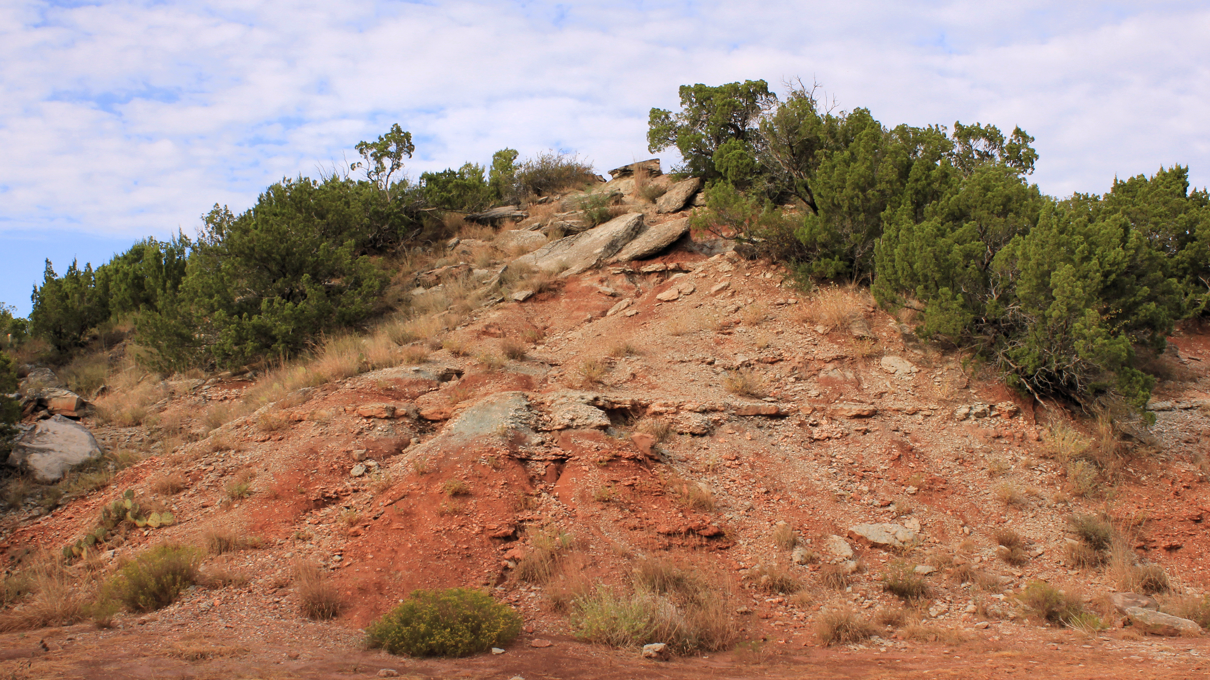 Copper Breaks State Park Rock Outcropping